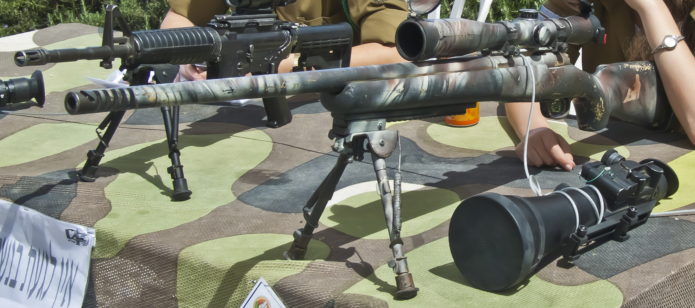 IDF M24 SWS